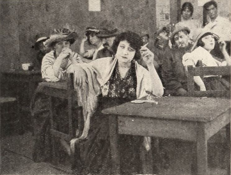 Still from the American drama film Madame X (1916) with Dorothy Donnelly, on page 65 of the February 1916 Cine-Mundial (American Spanish language magazine).